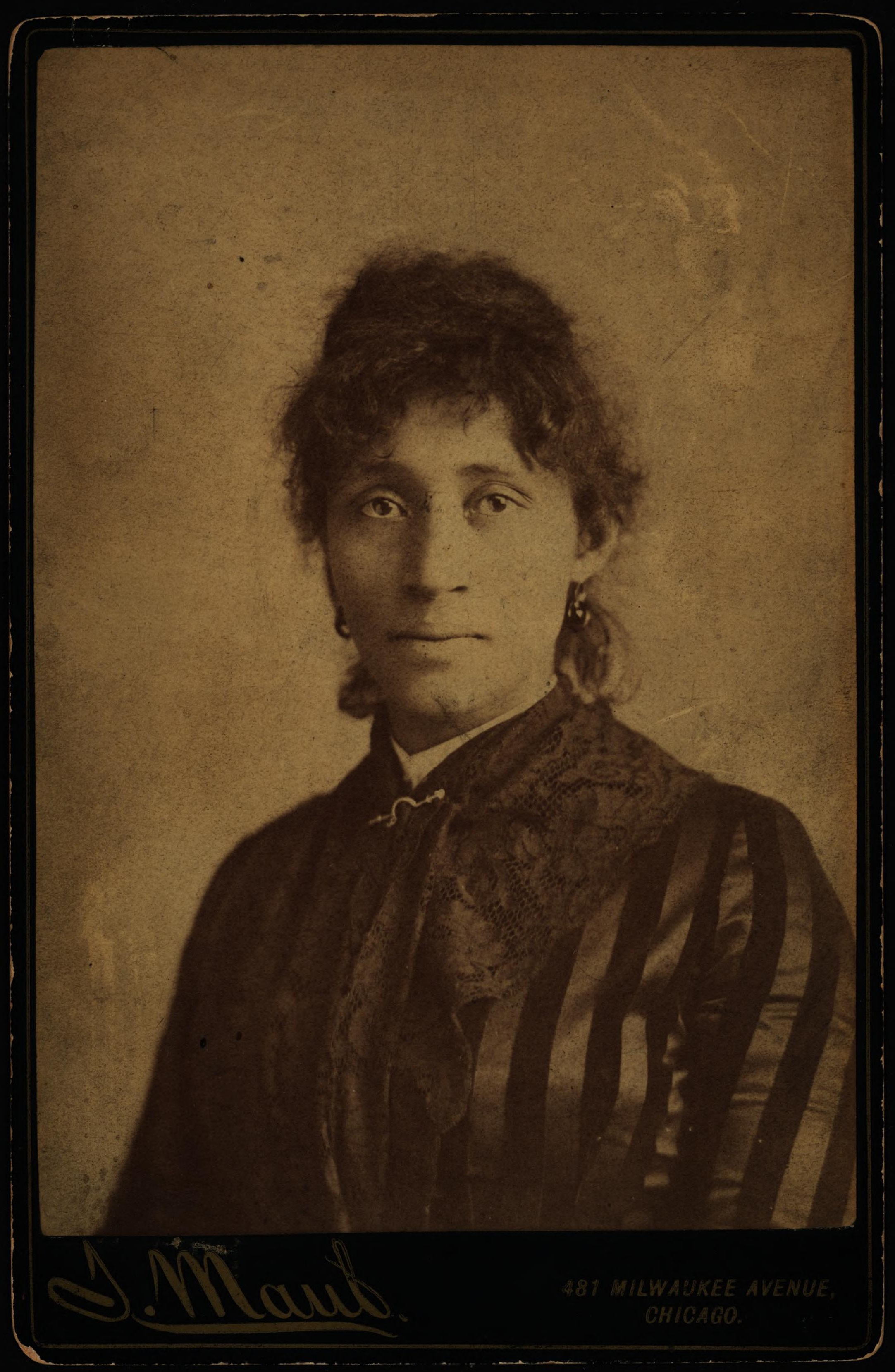 Studio portrait of Lucy Parsons